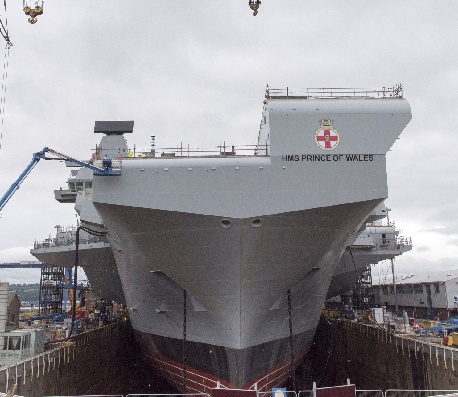 Marine Corps Gen. Joseph F. Dunford Jr., chairman of the Joint Chiefs of Staff, tours the Royal Navy aircraft carrier HMS Prince of Wales during a visit to Scotland, United Kindom, Aug. 25, 2017. The Prince of Wales is still under construction and is scheduled to launch late 2017 with a commissioning scheduled in 2020.